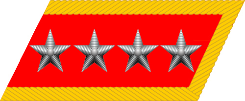 General of the Army collar insignia (PRC)